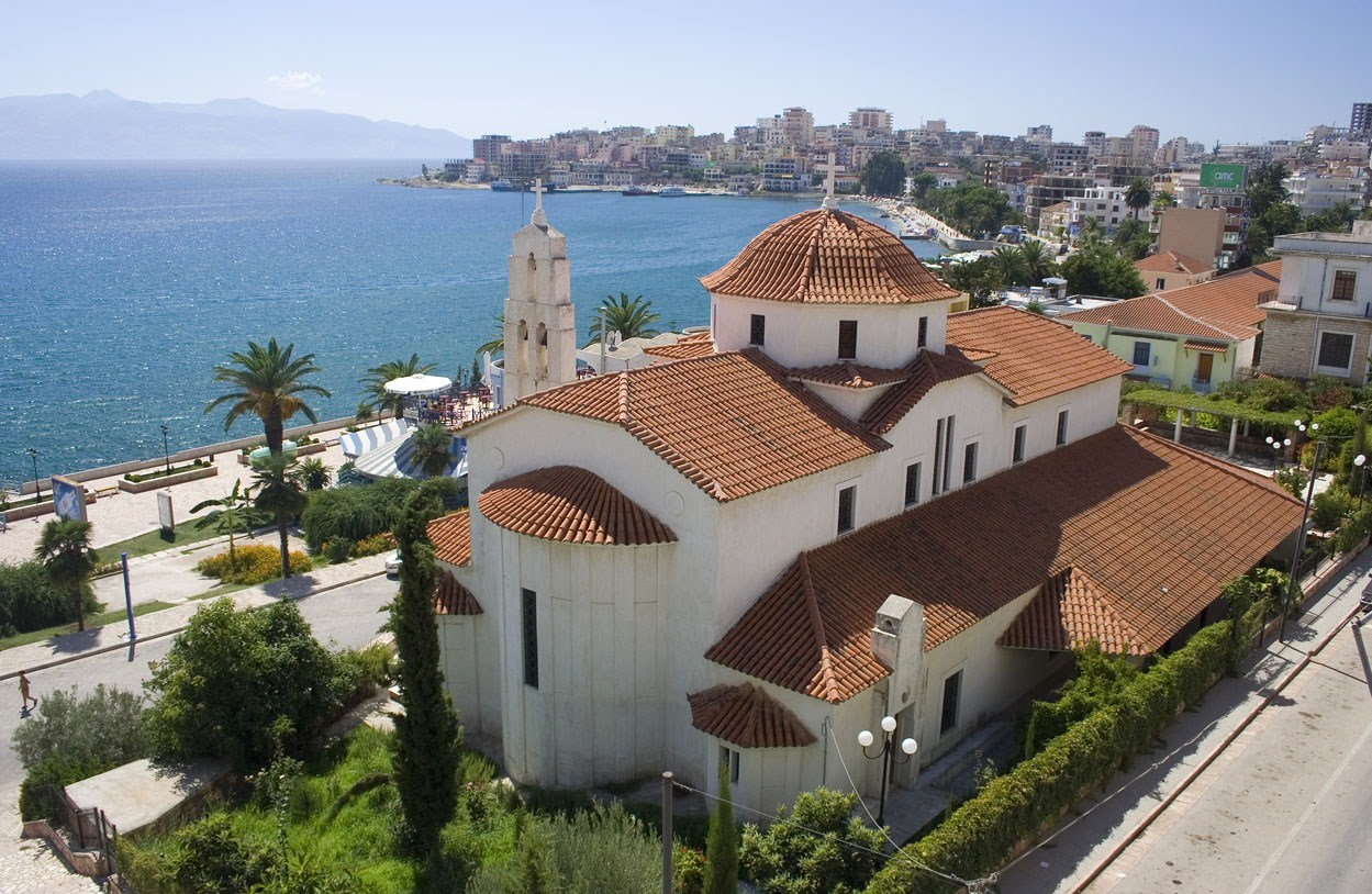 Orthodox Church in Saranda